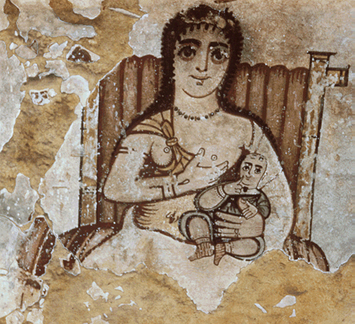 Photograph (colorized to match original appearance) of a mural from House B50 in Karanis, Egypt, from the fourth century AD. (Source: Isis and Mary in early icons by Thomas F. Mathews and Norman Muller, in Images of the Mother of God: Perceptions of the Theotokos in Byzantium, edited by Maria Vassiliaki. Ashgate Publishing, 2005; pp. 5, 10.)